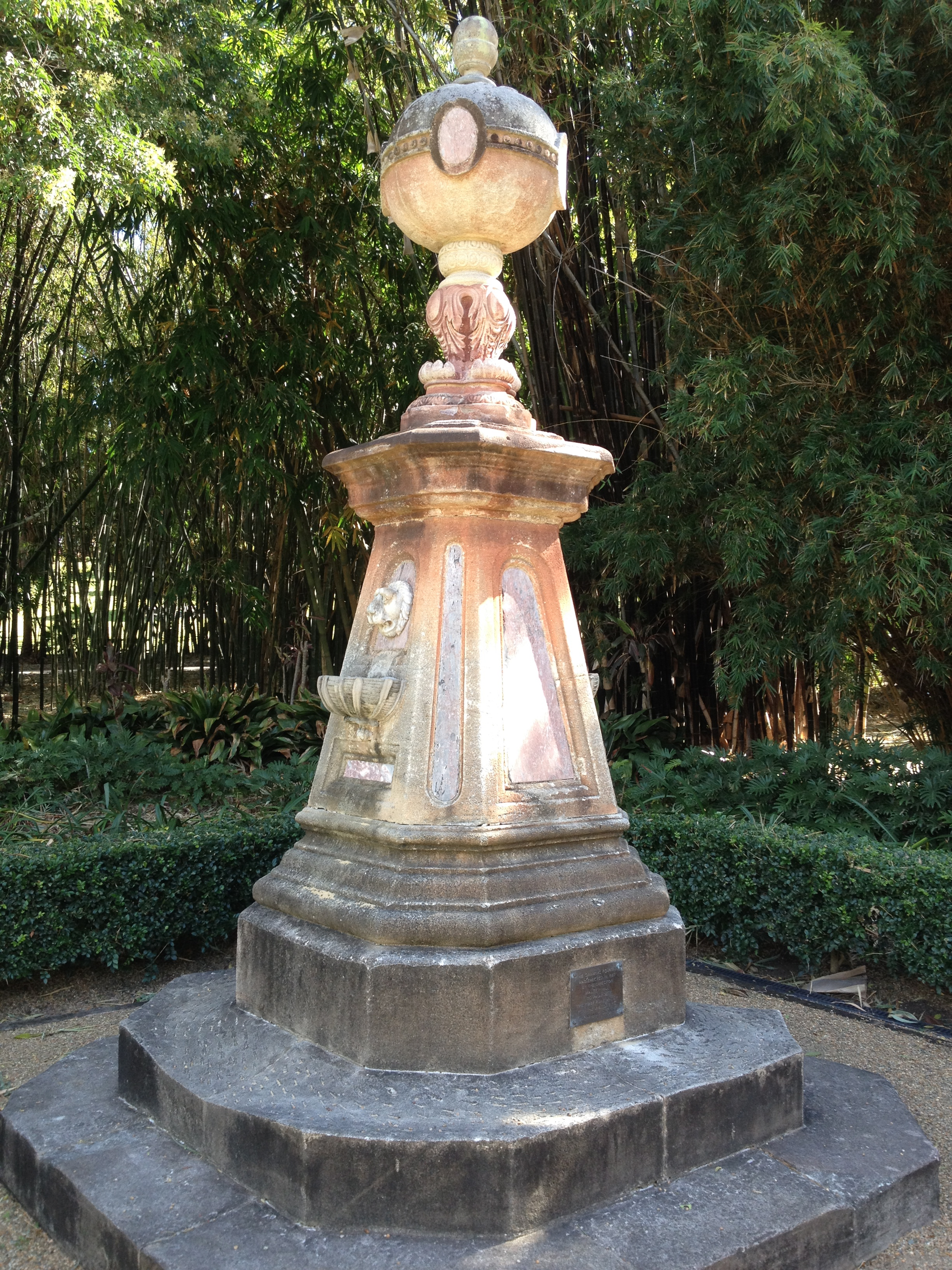 Walter Hill Fountain